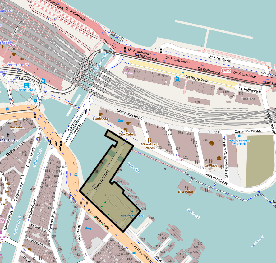 Location of the Oosterdoksdam in Amsterdam, based on OpenStreetMap.